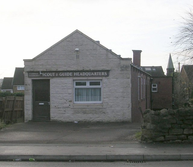 7th Airedale St Margaret's Scouts & Guides - New Road Side